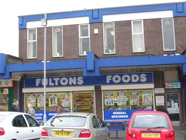 Fultons Foods - Bramley Shopping Centre